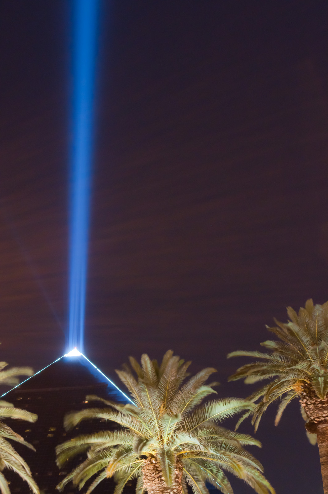 The Egyptian-themed Luxor Hotel and Casino in Las Vegas is a black glass pyramid and a Sphinx-shaped entrance, topped off with an extremely bright light beam shining into the sky. The beam symbolizes the Egyptian deceased rising into the afterlife.